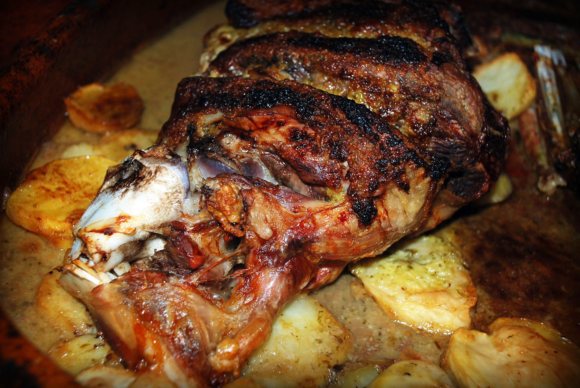 Roast lamb. Palentine traditional dish (Palencia, Castile and León).